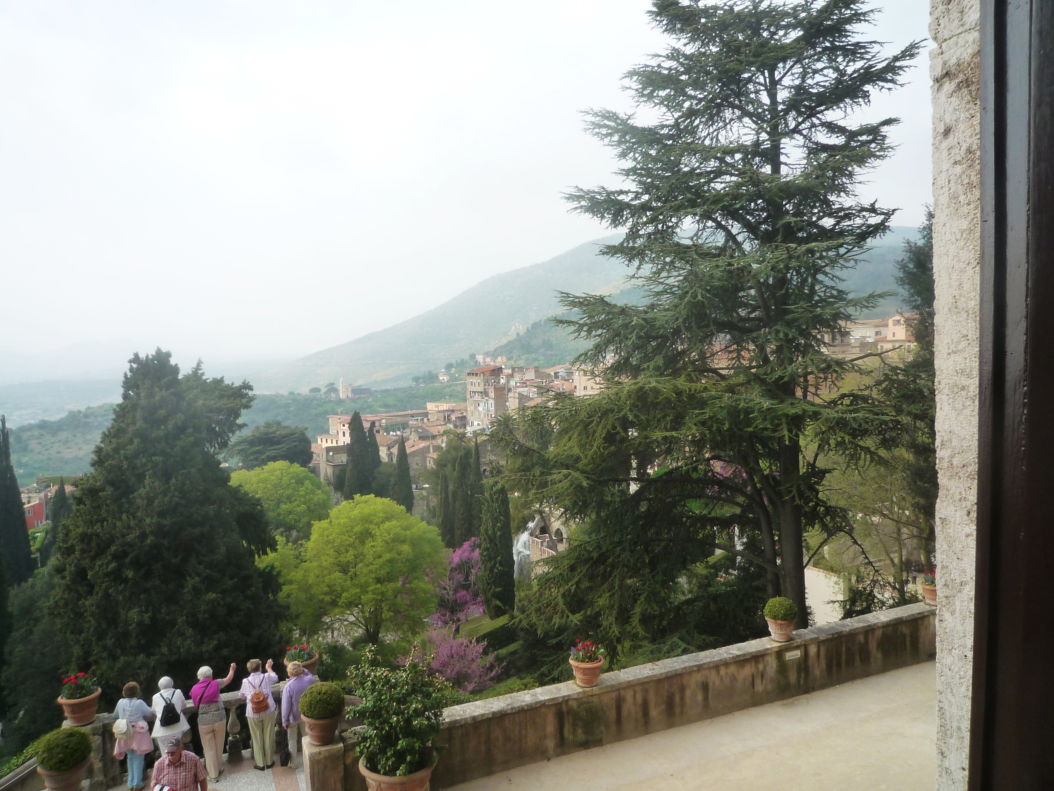 A view towards the North from Villa D'Este (Tivoli), Lazio, Italy.